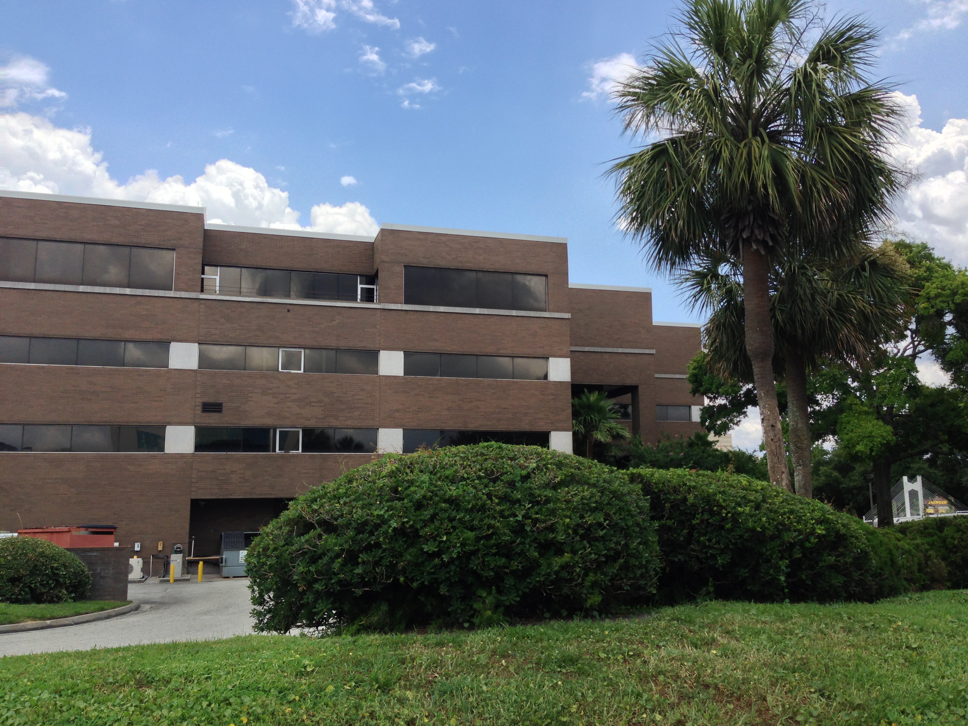 Administration building at FSCJ